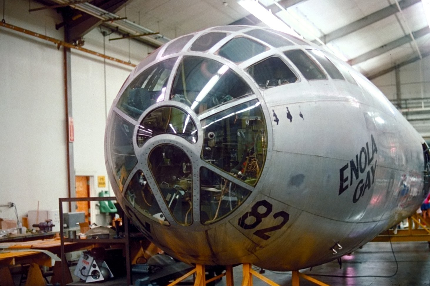 The "Enola Gay" was quietly stored in a Smithsonian warehouse until the '90. Photo taken by myself in '87.